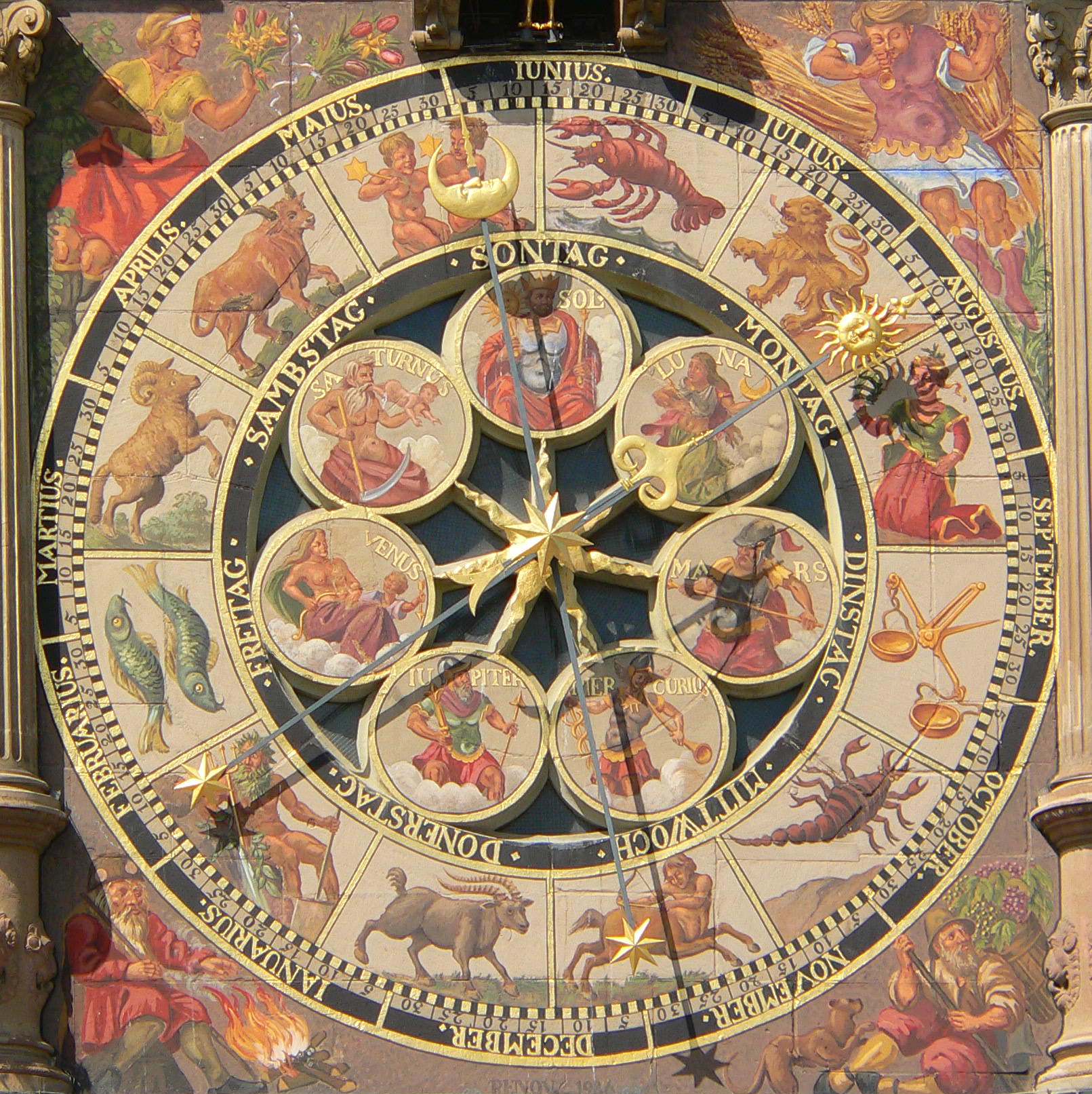 Astronomical clock (detail) at the town hall of Heilbronn - Germany